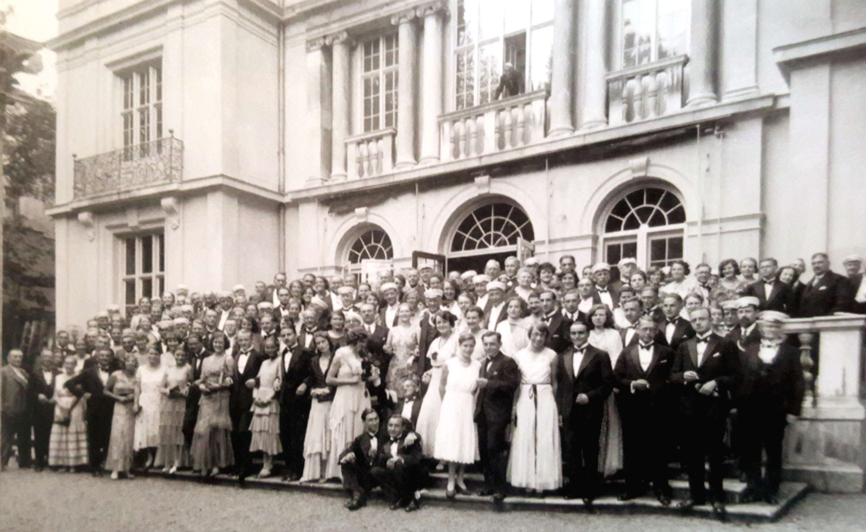 German student corps